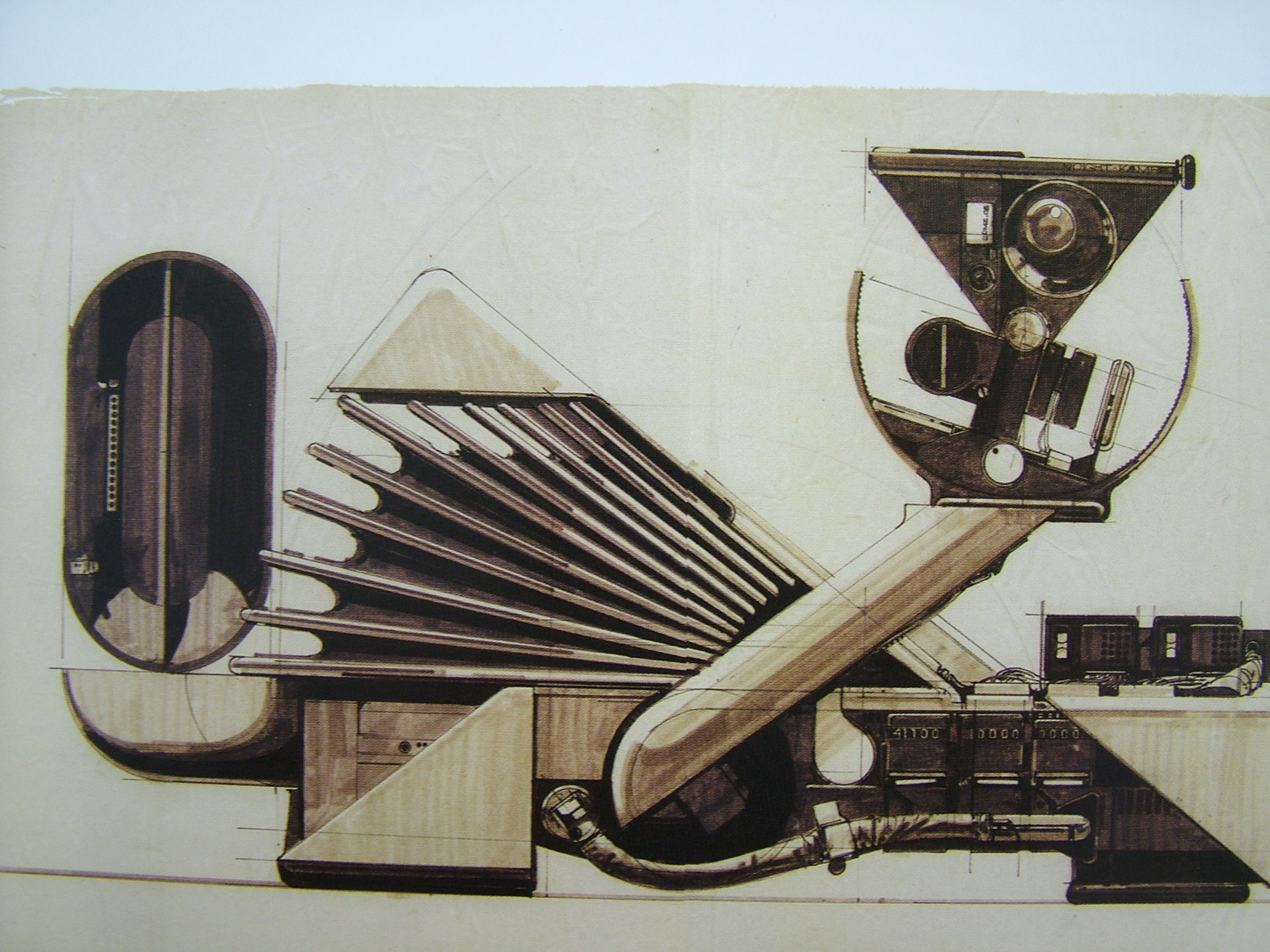 The Voight-Kampff device's bellows "breathe" in and process the odors of its subject.